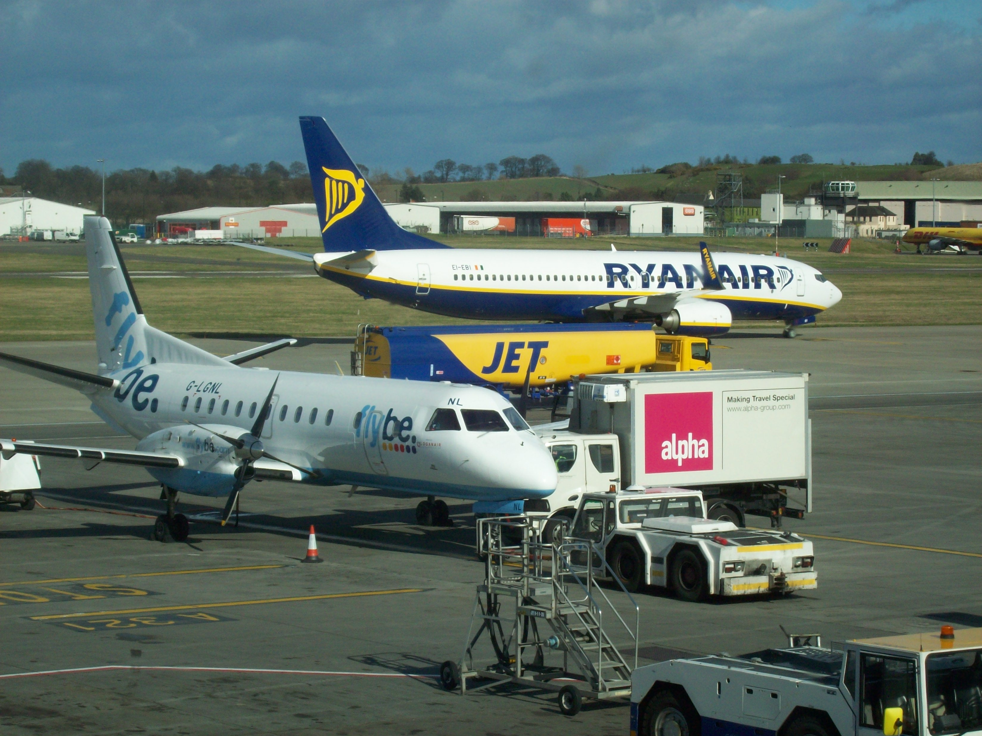 Apron at Edinburgh Airport, showing aircraft from Ryanair (Boeing 737) and Flybe [operated by Loganair] (Saab 340)